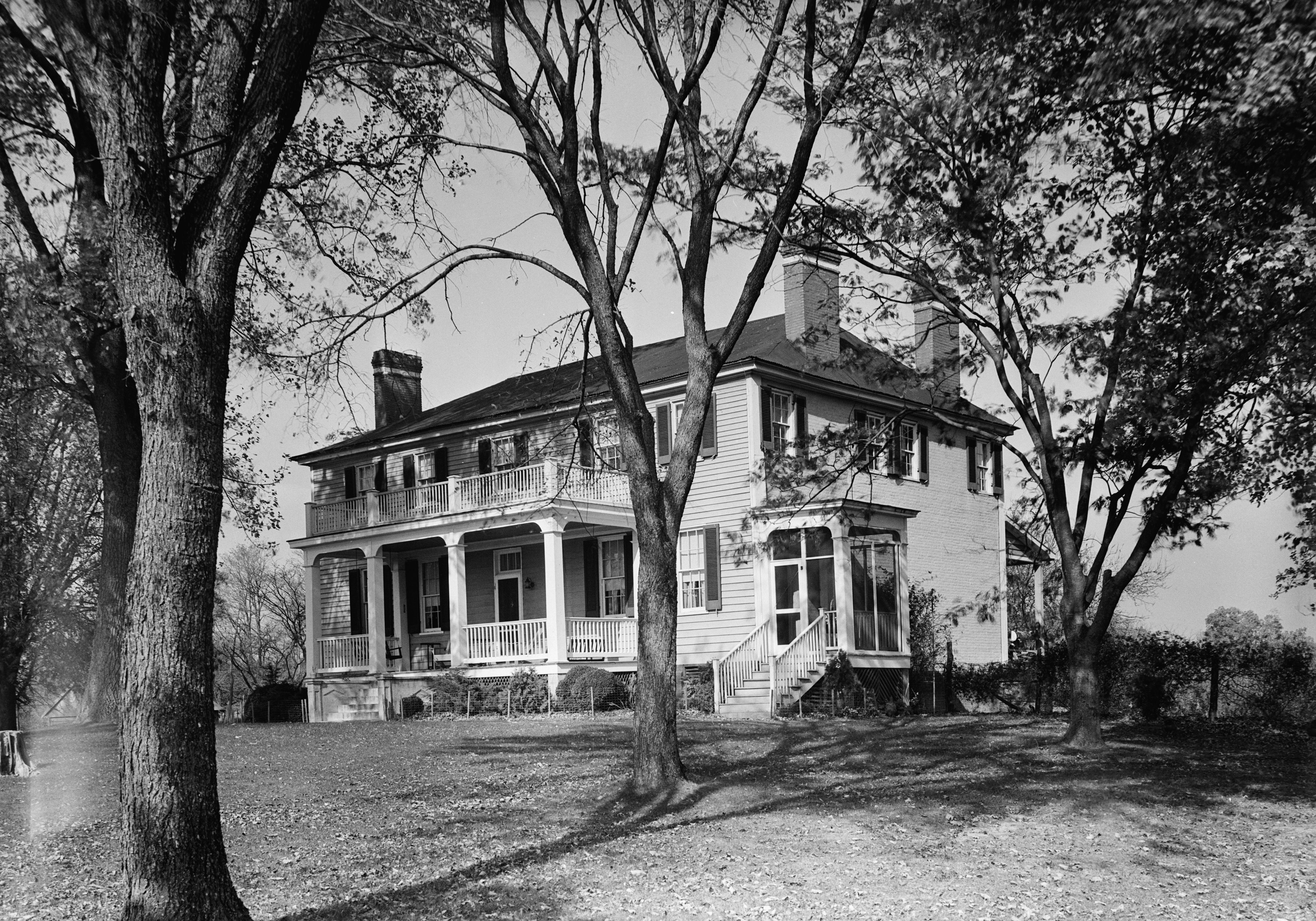 Taney Place: Historic American Buildings Survey E.H. Pickering, Photographer November 1936 BIRTHPLACE OF ROGER BROOKE TANEY (1777)